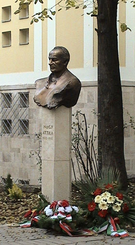 Statue of Attila Nagy, hungarian actor. Sculptor: Géza Balogh.